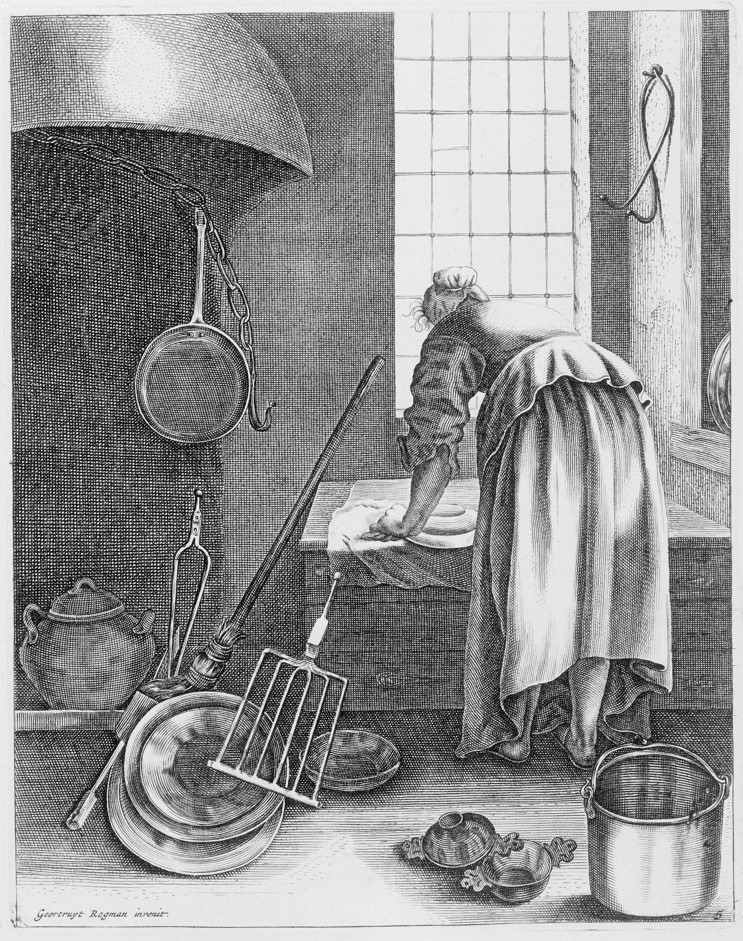 Print; Prints